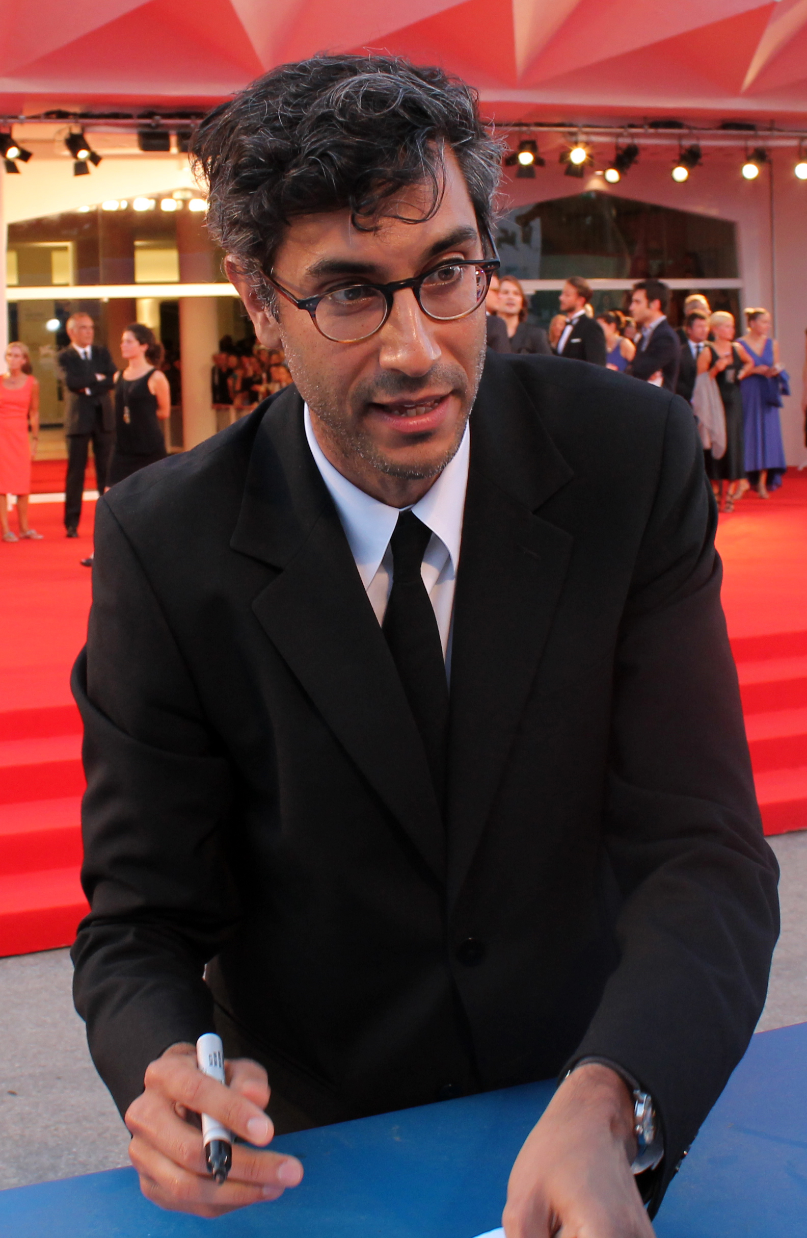 Ramin Bahrani at the premiere of 99 Homes at the 2014 Venice International Film Festival